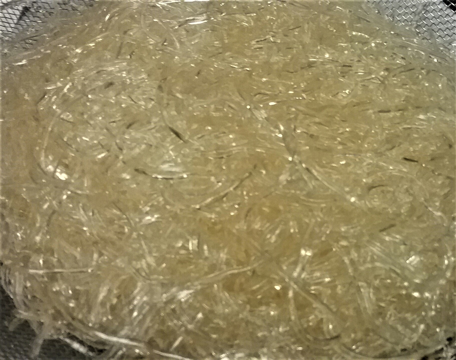 This is a batch of defrosted imitation shark fin. It imitates the real shark fins' chewy, gelatinous texture.